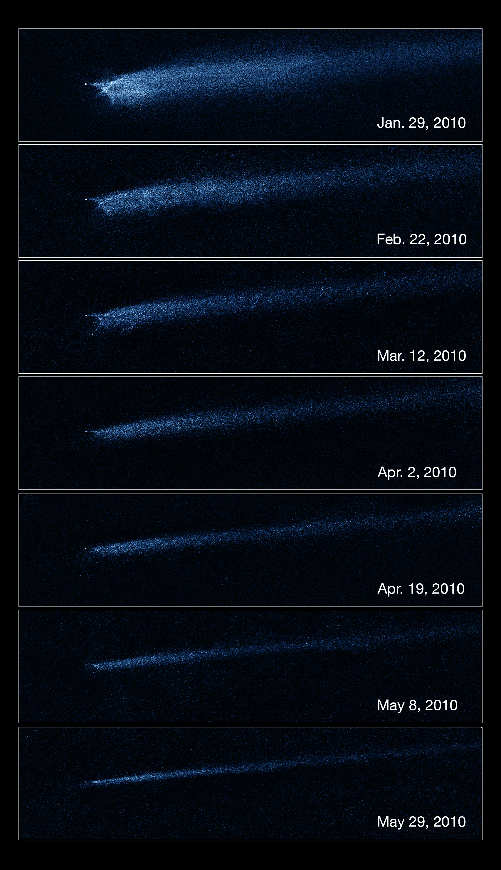 This series of images taken by Hubble’s Wide Field Camera 3 clearly shows the slow evolution of the debris coming from asteroid P/2010 A2, which is thought to be due to a collision with a smaller asteroid. When astronomers first spotted the unusual X shape, they assumed that they were observing the immediate aftermath of an impact. However, the slower than anticipated rate of change in the appearance of the debris suggests that the collision in fact took place about a year earlier than the first observations. These seven exposures were taken between January and May 2010 while the asteroid was rapidly receding from Earth. As the asteroid gets further away from us, we are able to see more of its comet-like tail in each subsequent frame. In the top picture, the portion of the tail we see is around 50 000 kilometers long. In the bottom picture, we see around 85 000 kilometers. For all images, the field of view remains about 75 arc-seconds across. The images were taken in visible light (filter F606W) and artificially colored blue.